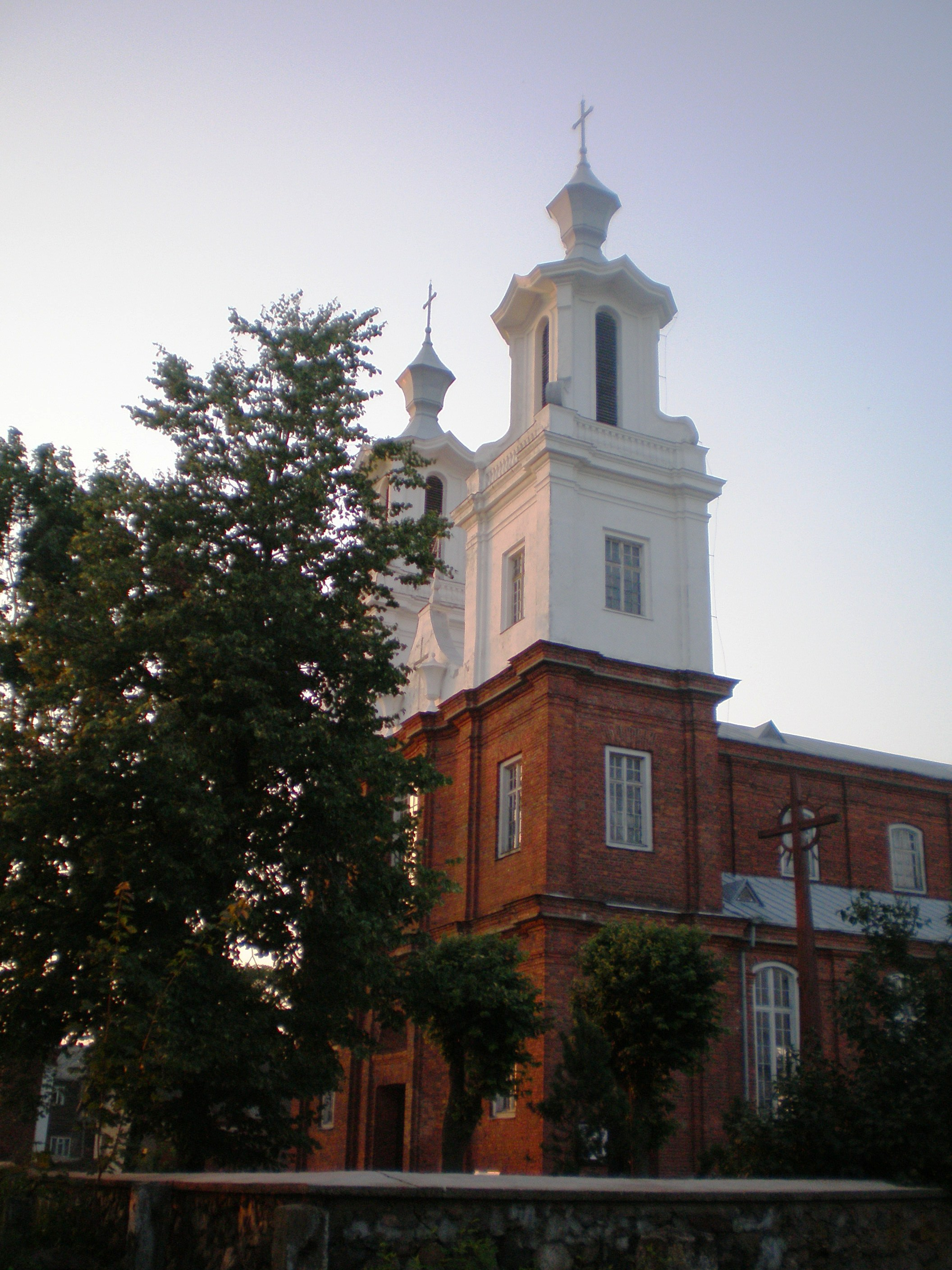 Church of Ariogala, Lithuania.